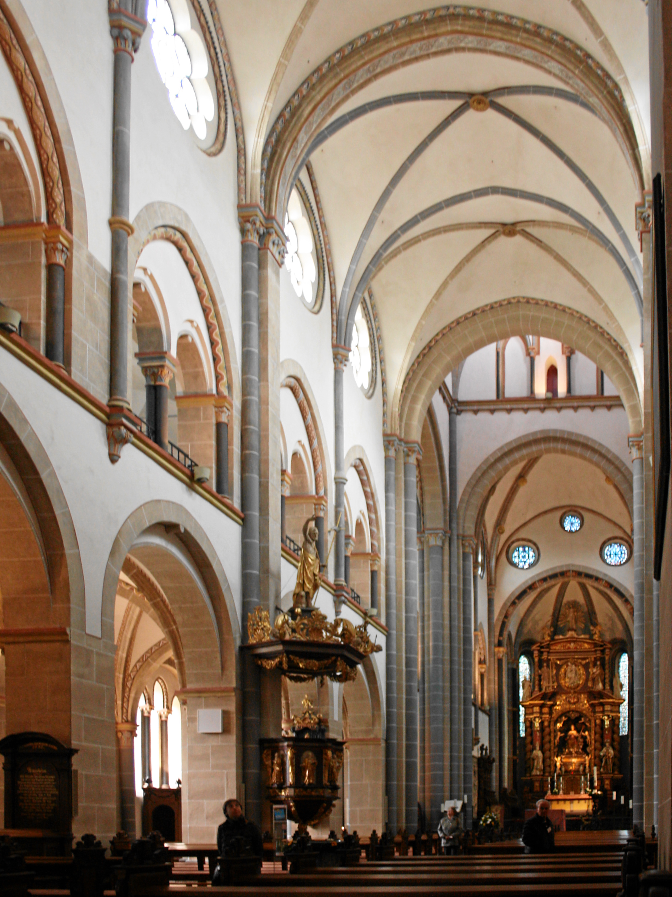 Essen-Werden, Germany. Roman-catholic church St. Ludgerus, basilica minor. nave towards East.